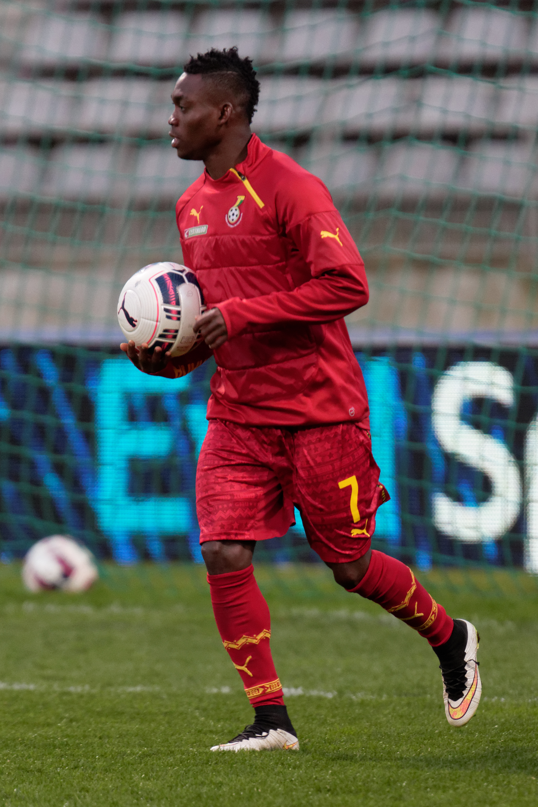 Mali vs Ghana, exhibition game at Paris, 31st March 2015.